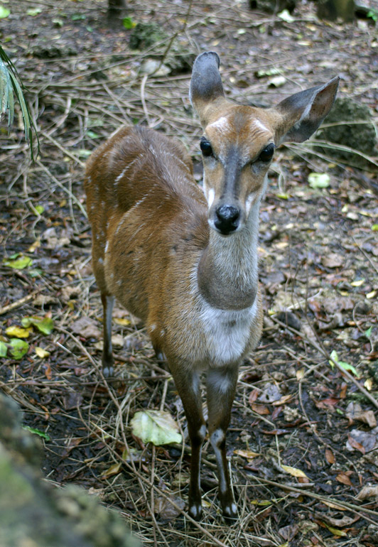 Bushbuck